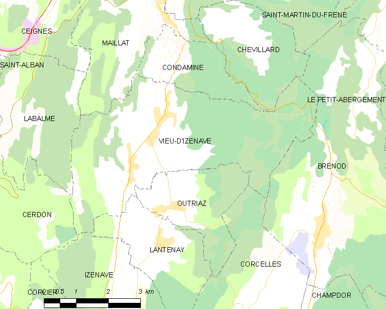 Map of French commune: Vieu-d'Izenave Map commune FR insee code 01441.png